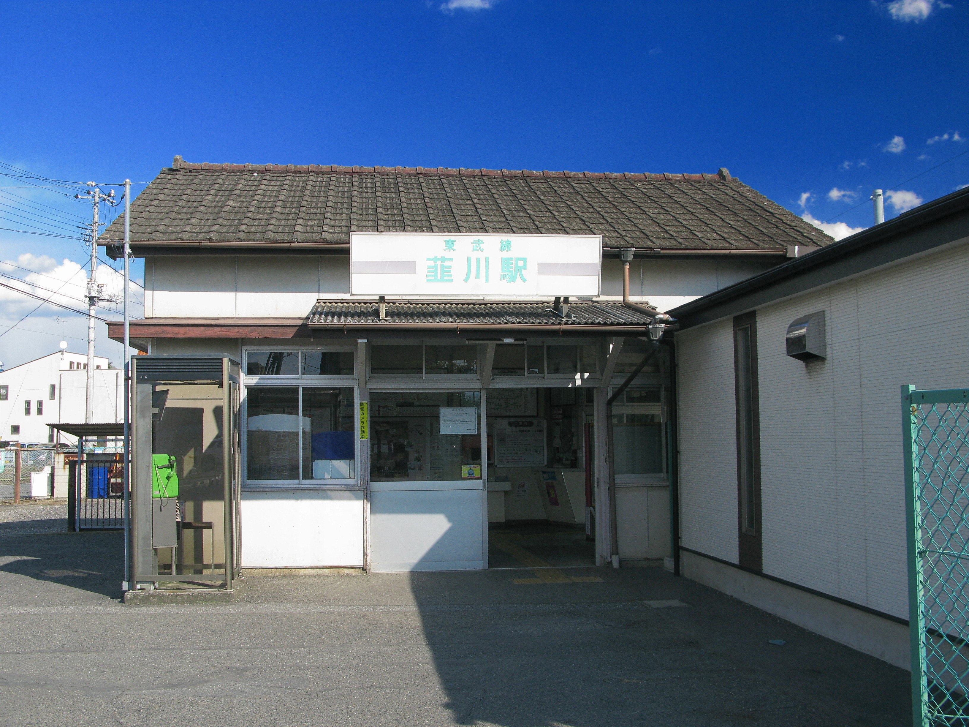 Niragawa Station of the Tōbu Isesaki Line, Ōta, Gunma, Japan